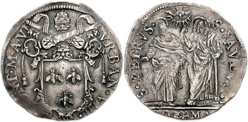 Italy, Papal States. Urbanus VIII. 1623-1644. AR Testone (29mm, 9.57 g). Rome mint. Dated A(NNO) VI (1629/30). Barberini coat-of-arms surmounted by papal tiara and crossed keys. Around: VRBANVS VIII PONT. M. A. V Sts. Peter and Paul standing facing; Holy Ghost above. Around: S. PAVLVS - S. PETRVS. RO-MA in exergue Cf. CNI XVI pg. 309, 273; cf. Muntoni II pg. 179, 68; Berman 1724.